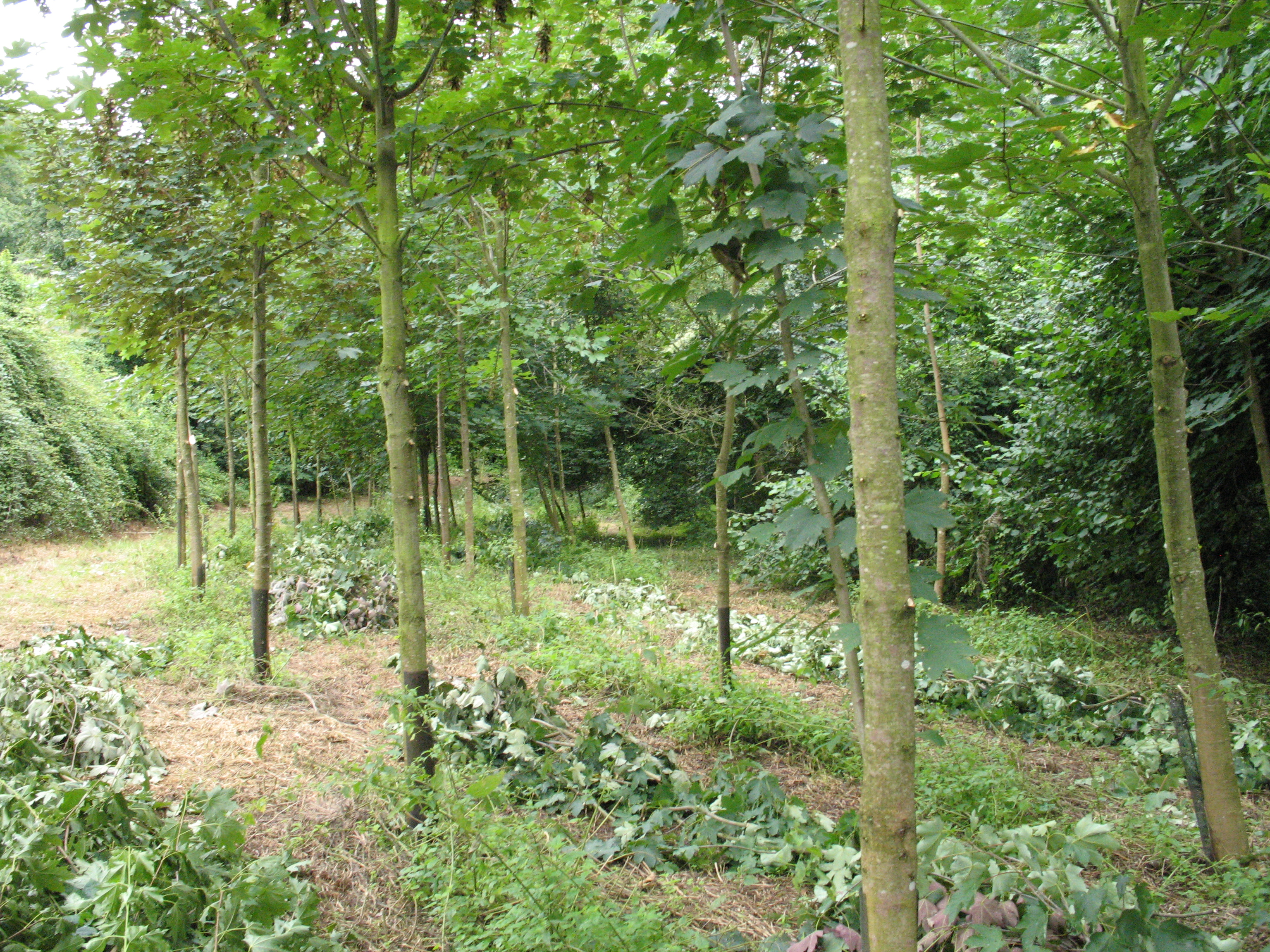 Acer pseudoplatanus (Sycamore maple) trunk pruning, in La Garrotxa, Catalonia, Spain